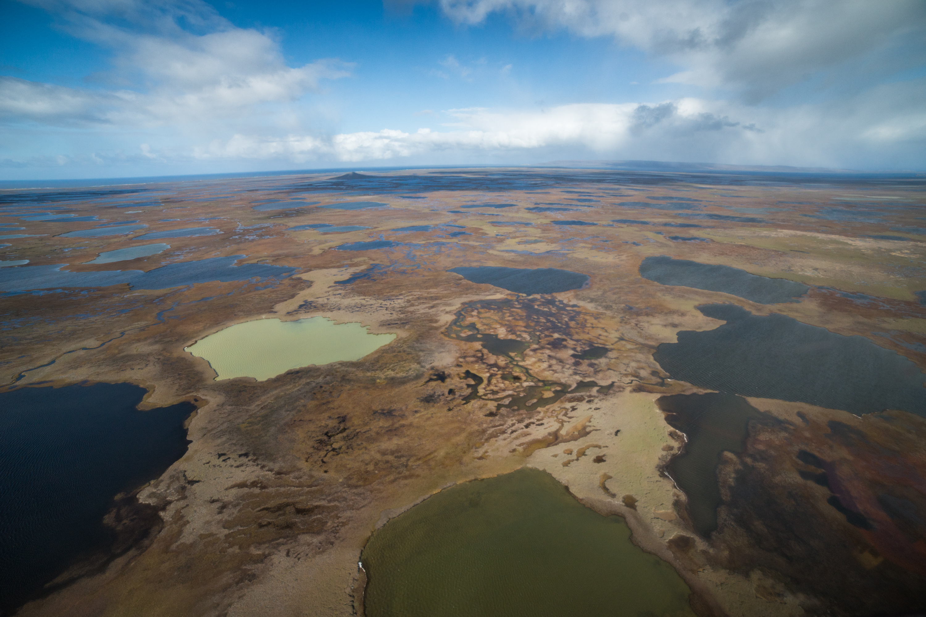 Courbet Peninsula, NE of Grande Terre, Kerguelen Islands.